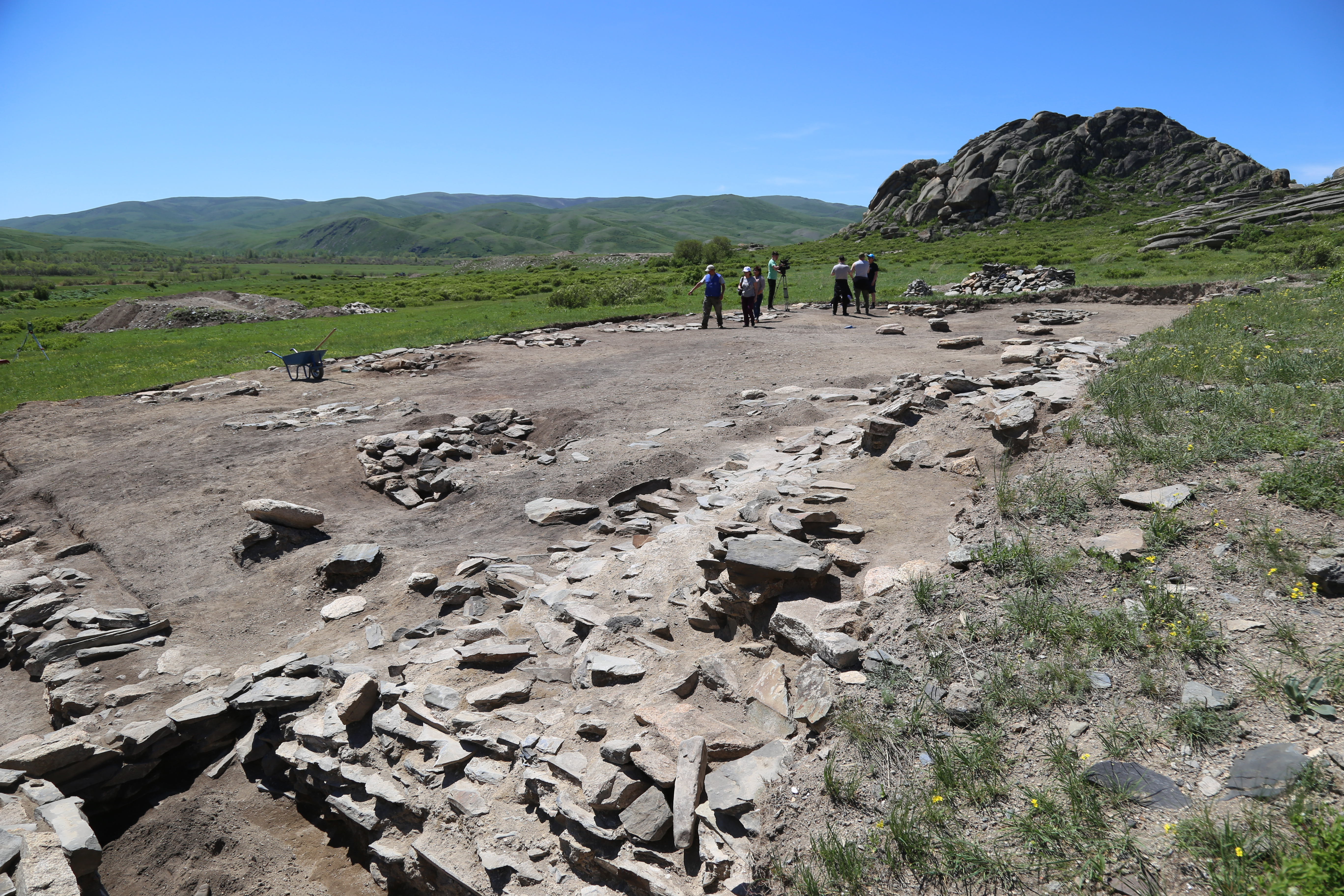 Ablaikit